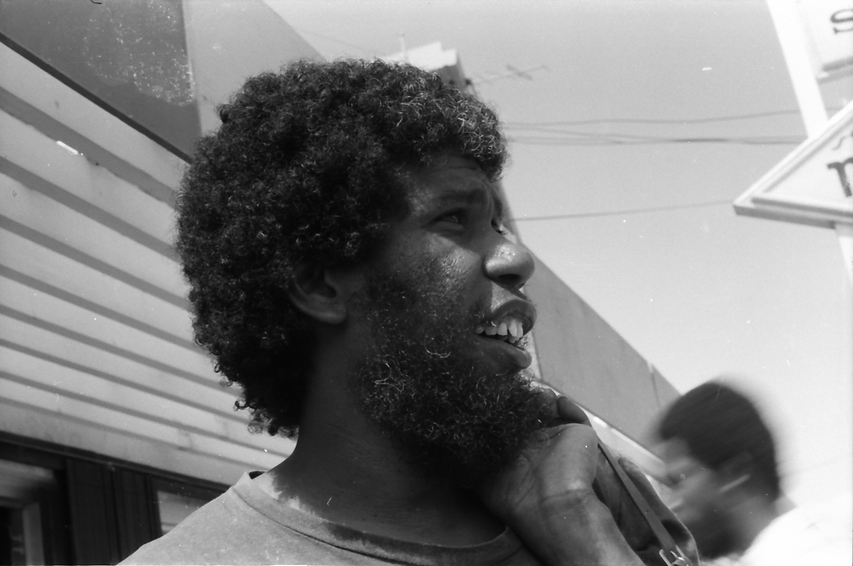 Kofi Kayiga in Kingston August 1979